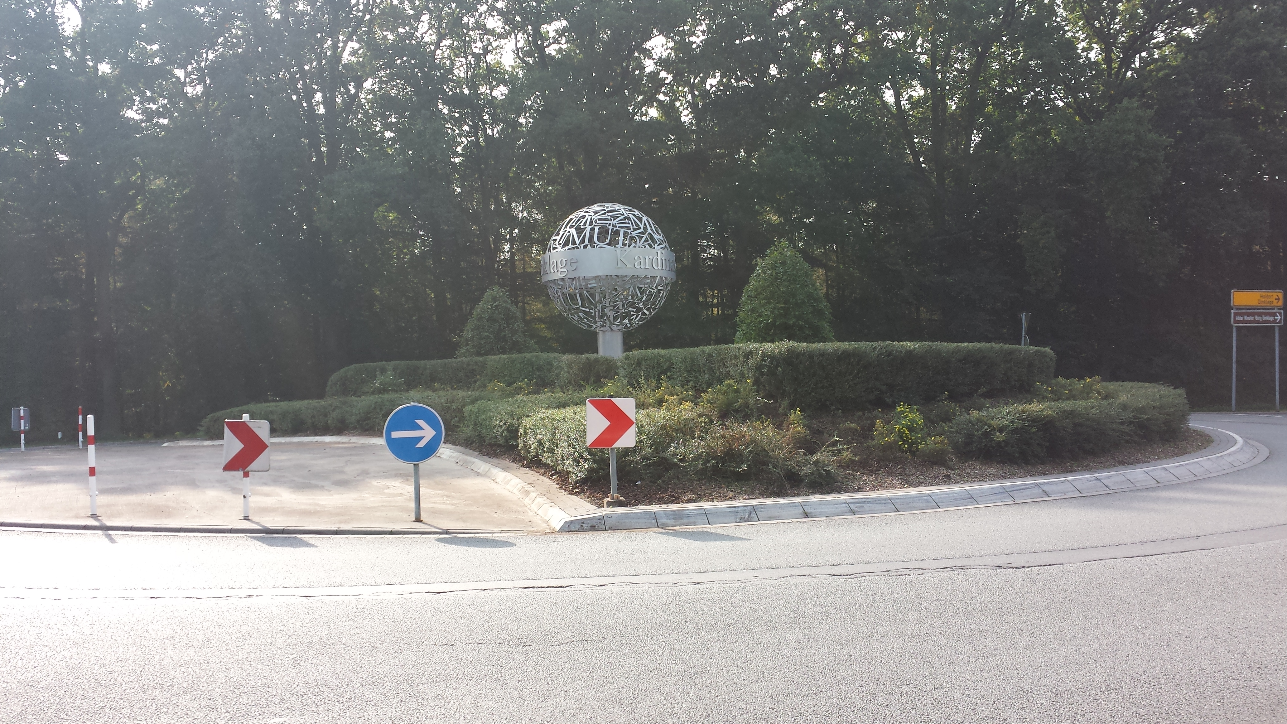 "Mutkugel" / Courage ball on the roundabout at the edge of Dinklage.